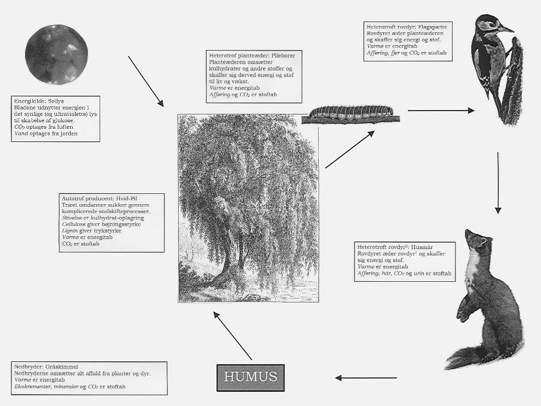 Biogeochemical cycle